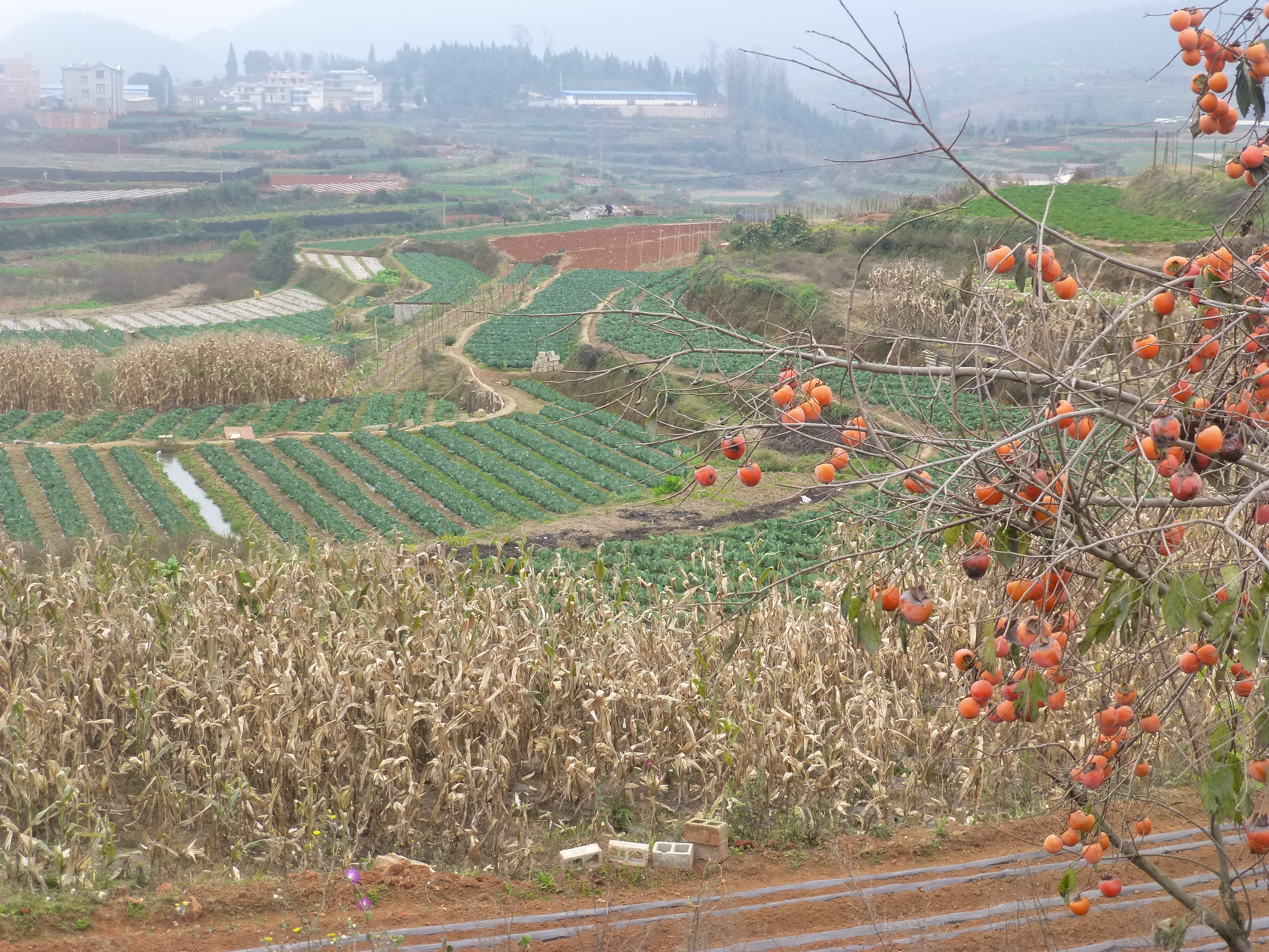 Qutuo, the first village in Tonghai County as you enter the county on Yunnan Hwy 319 (former S304) from the west, over the Qutuo Pass. A landscape with a persimmon tree.